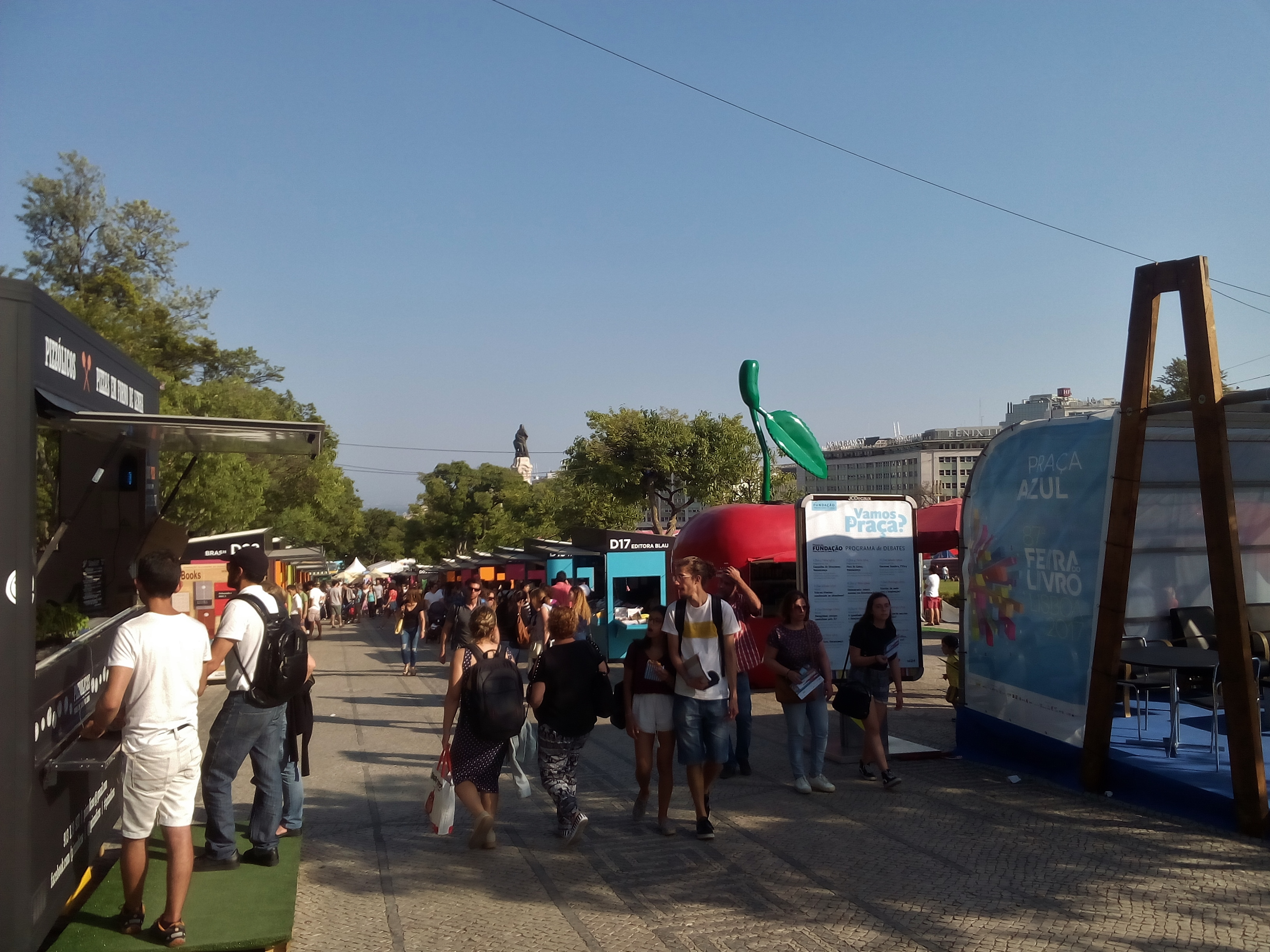 87th Annual Lisbon Book Fair, June 2017.